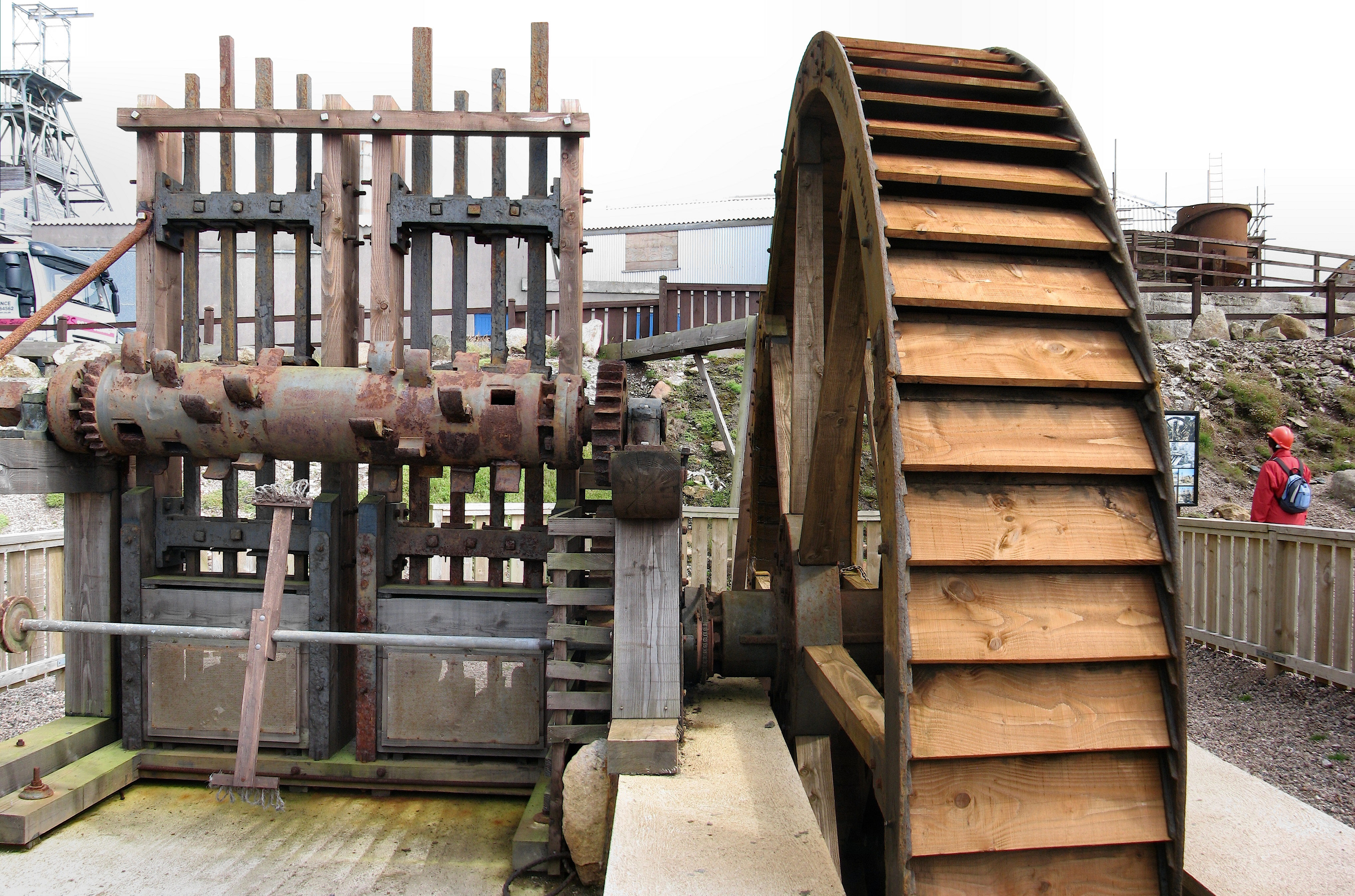 The restored 19th century waterwheel and tin stamps at Geevor Tin Mine, Cornwall, England. They were removed from Locke Farm, near Nancledra, in 1983.